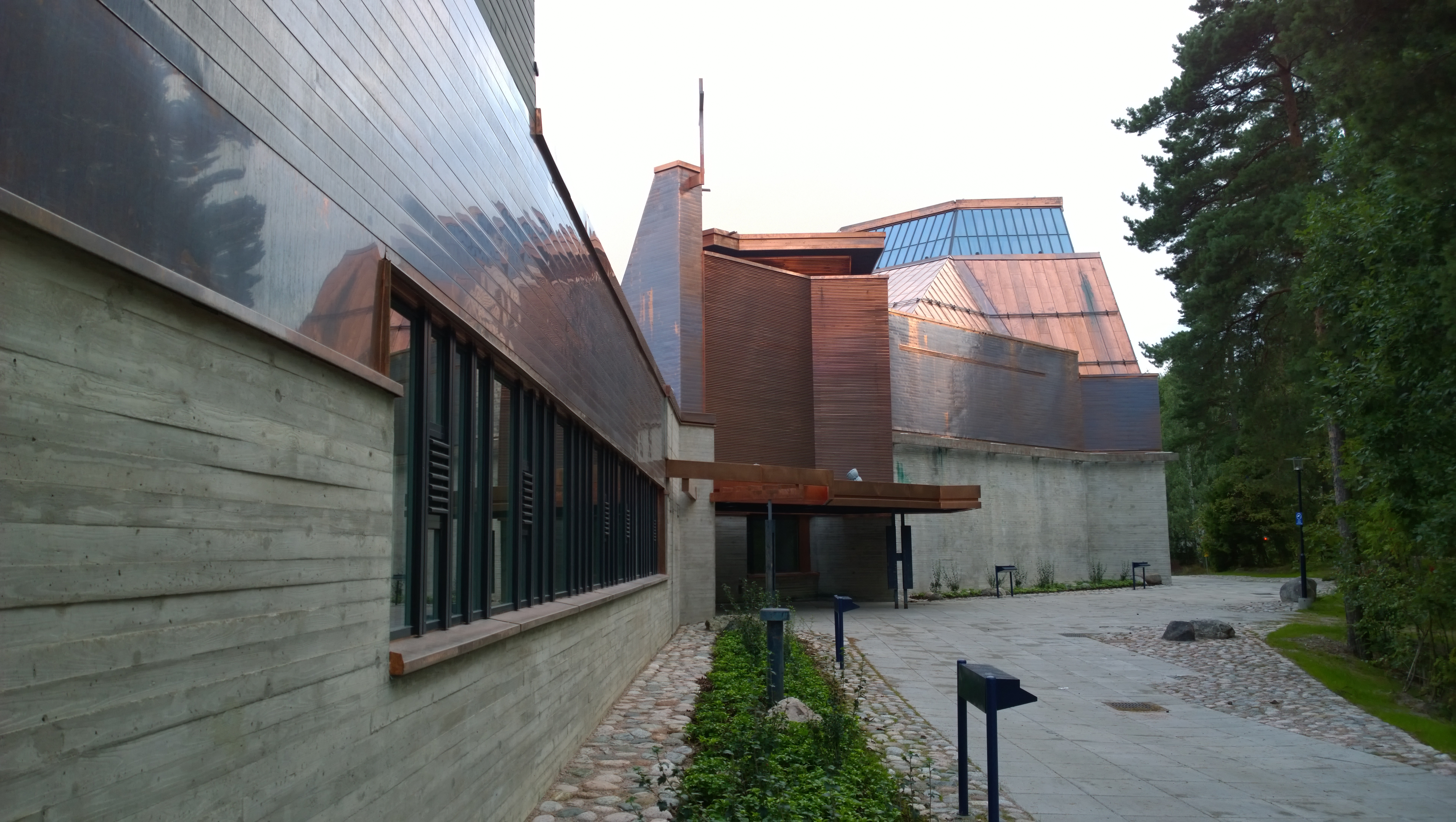 Espoonlahti Church, North walls. The entrance is seen in the middle. It is marked by the low beams and a cross on the roof.